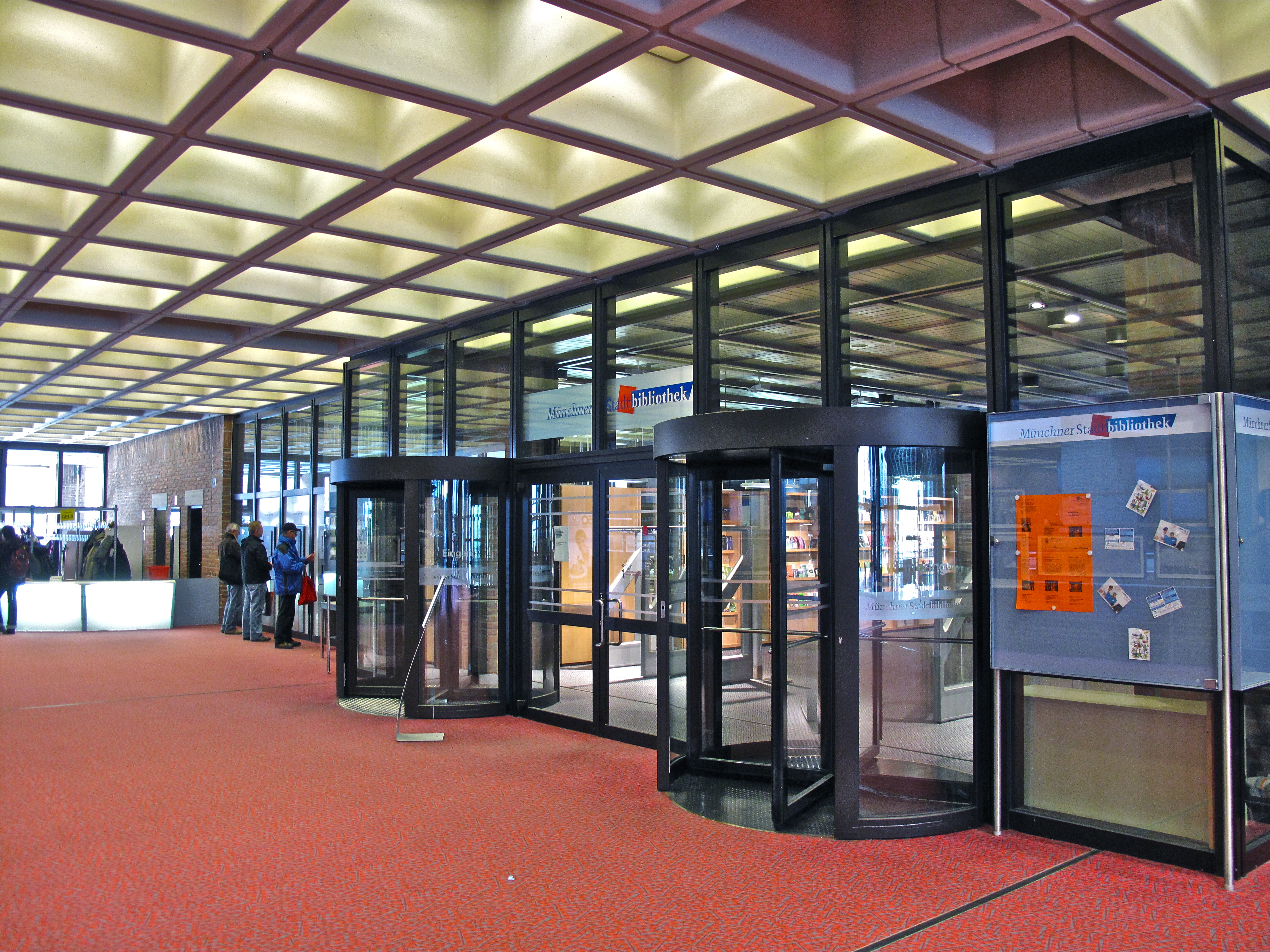 The Gasteig – cultural centre of the city of Munich (entrance to the public library).